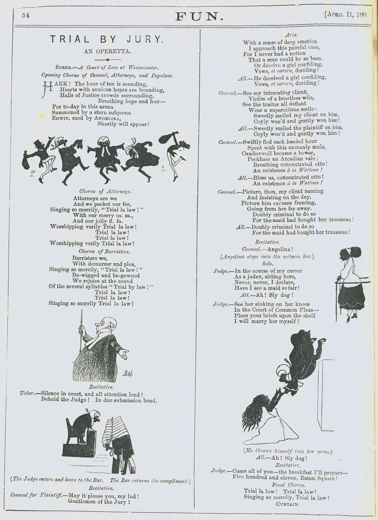 Gilbert's original draft of Trial by Jury: A short comic piece published in Fun 1868.